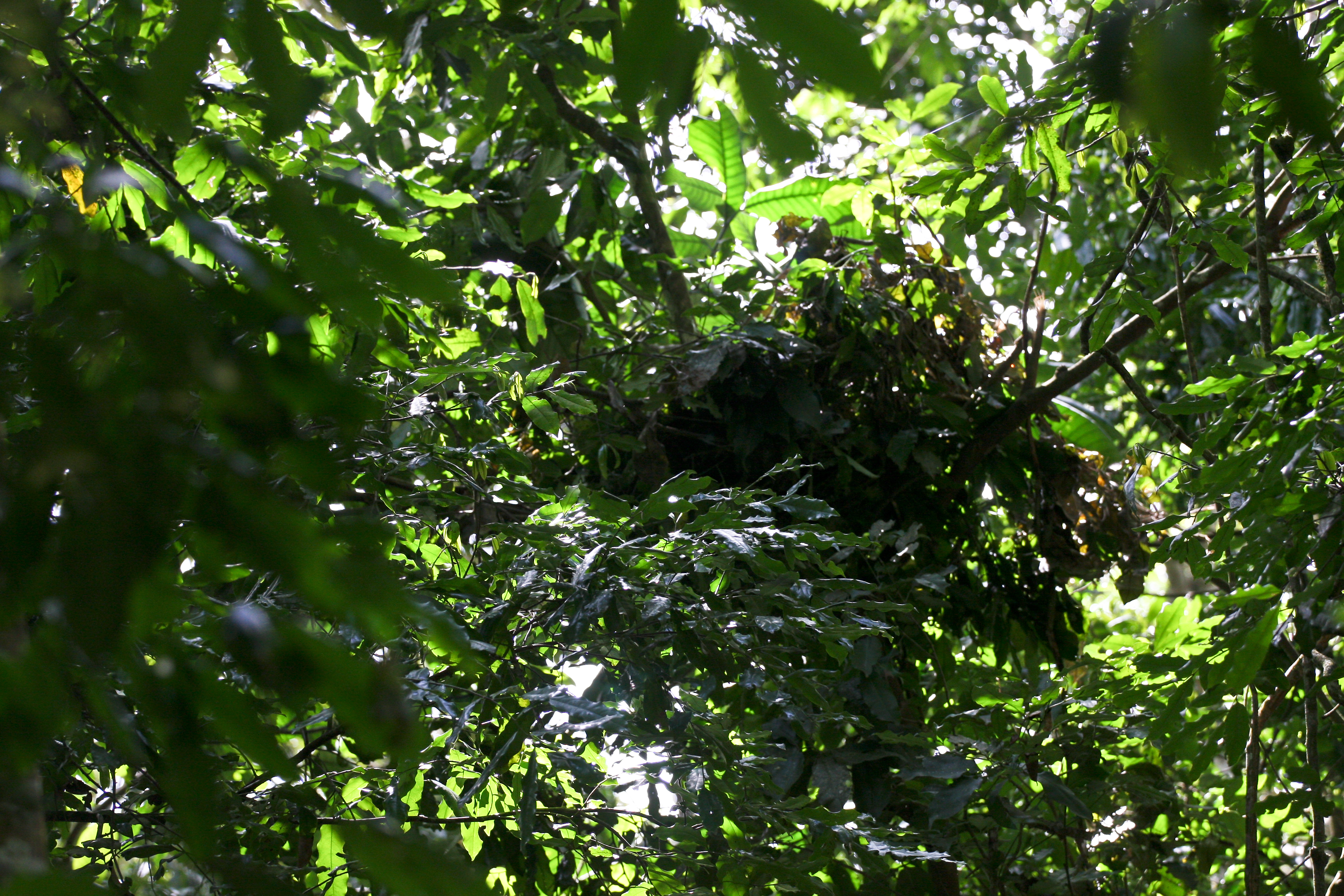 Every night, chimpanzees make nests to sleep in. This photo was taken by Joey Verge on April 9, 2009 in Kenya using a Canon EOS 40D.